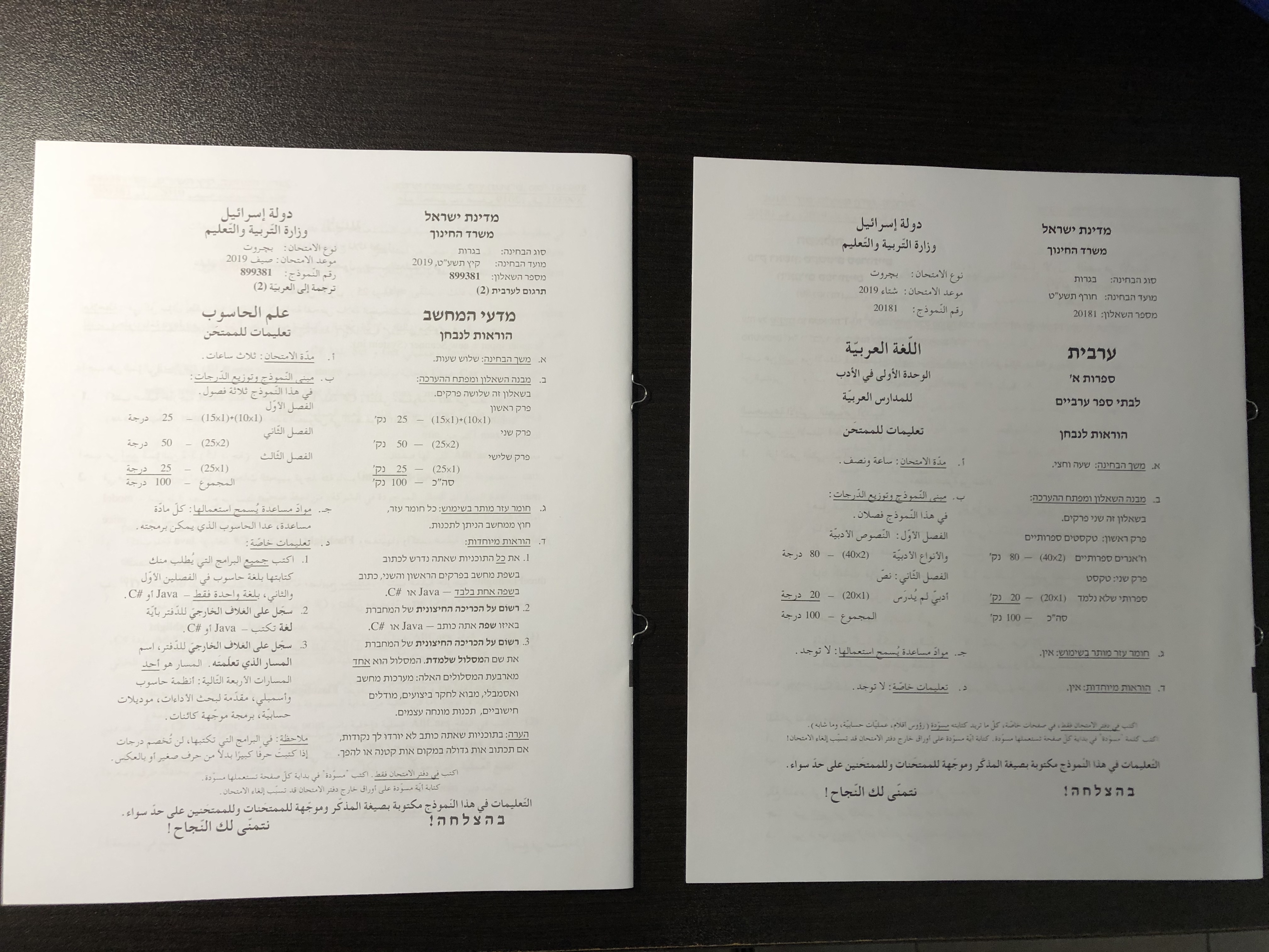 Left: 2019 Arabic version Computer Science Bagrut exam made for Arabic speakers in Arab high-schools. right: Arab literature Bagruit exam for students learning Arabic as their first language in Arab schools (1 unit وحدات). Almost all Bagrut exams have a version in Arabic, or a special version to be used in Arab high- schools.